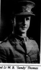 British (New Zealand) Major-General Walter Babington 'Sandy' Thomas, here as lieutenant before World War II